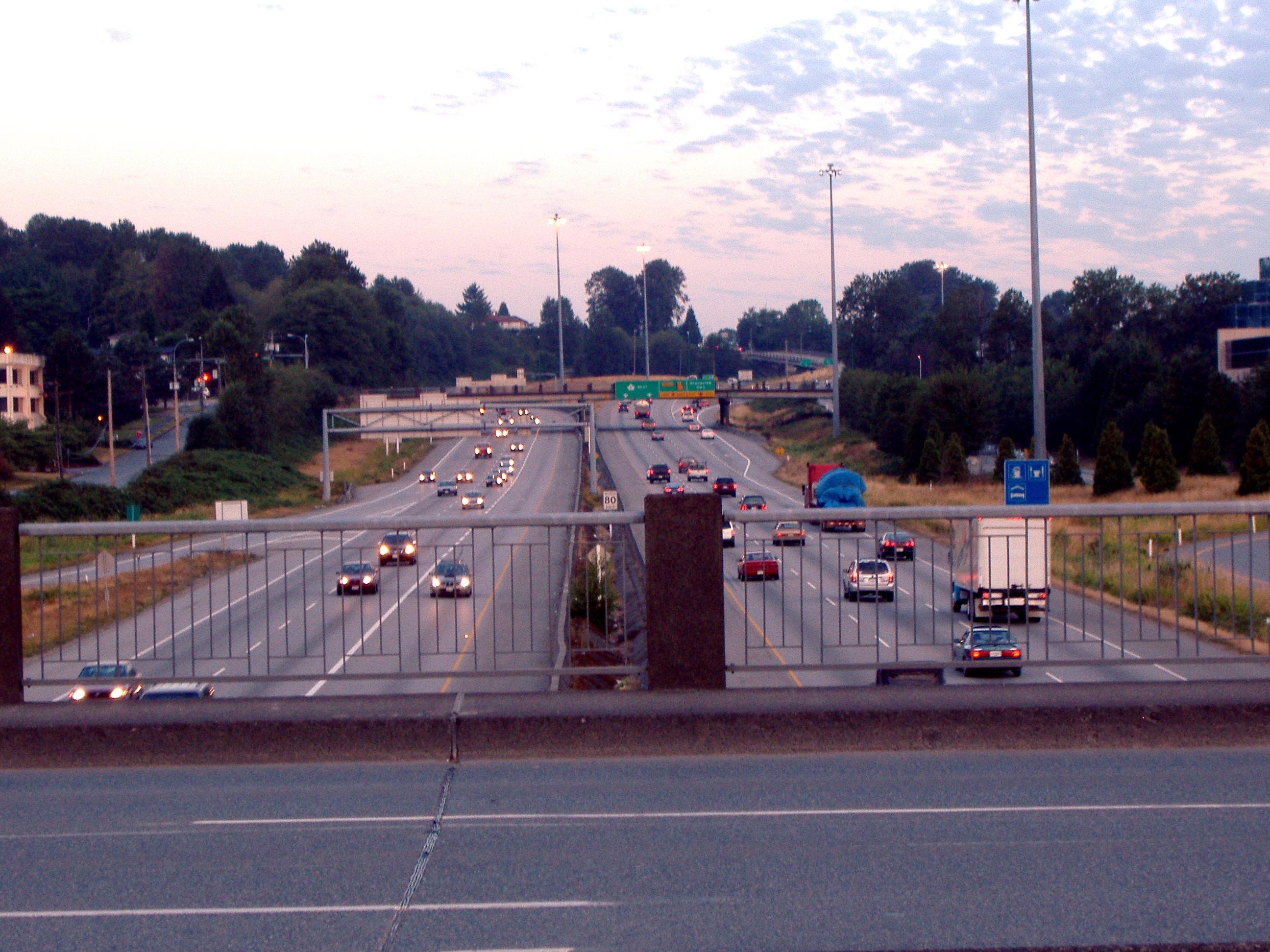 Provincial Highway 1 facing westbound. Taken on August 16, 2006.